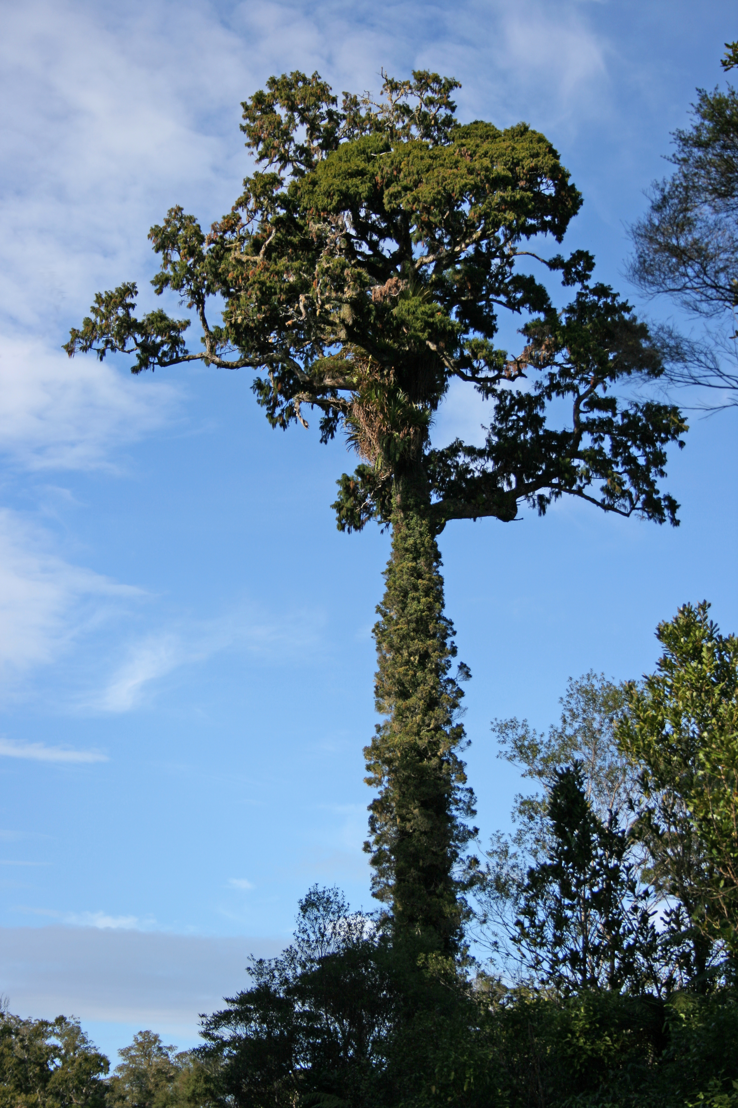 Dacrydium cupressinum, Rimu, endemic to New Zealand, growing in habitat in the Waitakere Ranges, west Auckland, New Zealand. The trunk of this tree is covered with Rata vines (Metrosideros). spp